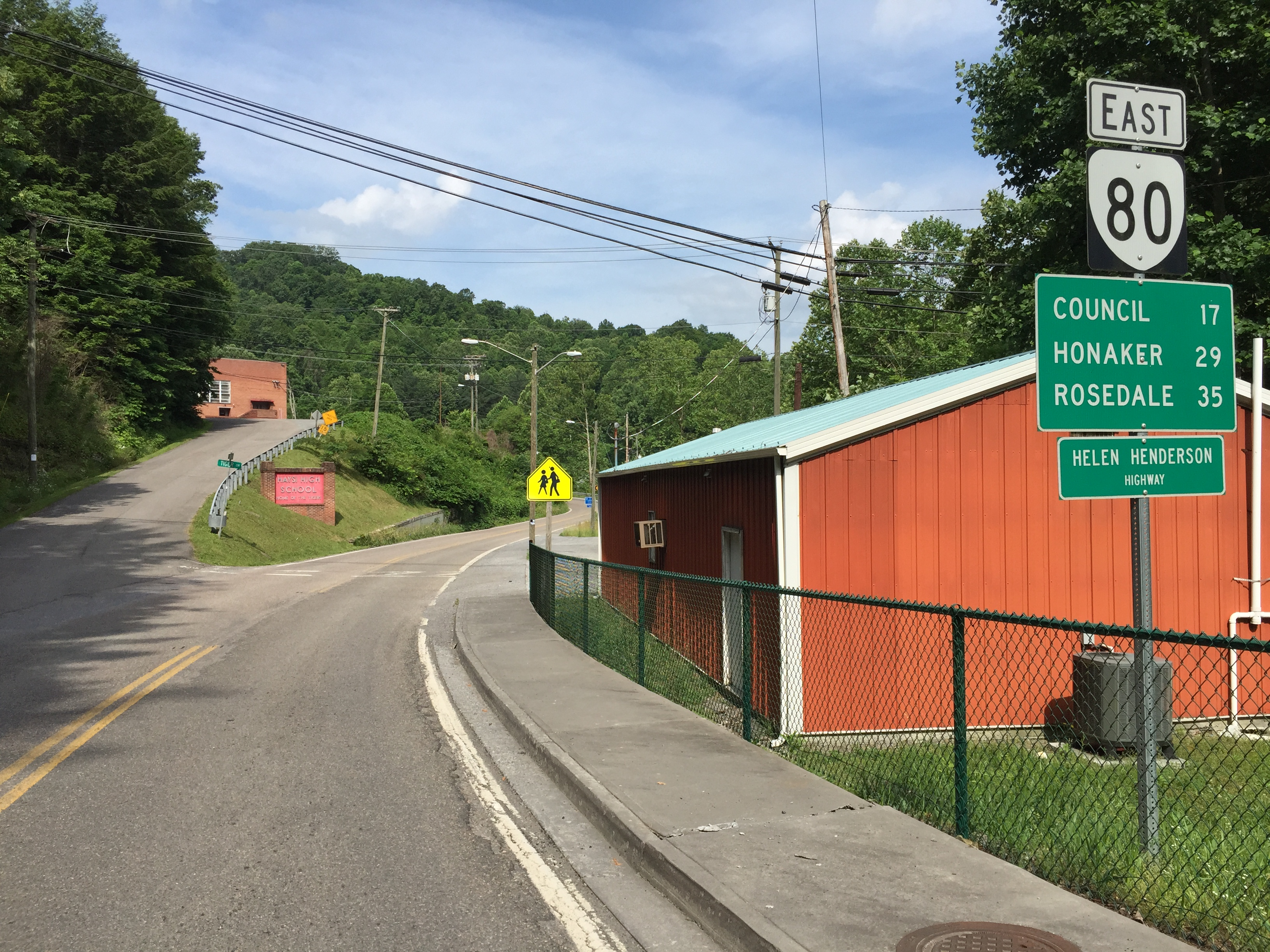 View east along Virginia State Route 80 (Helen Henderson Highway) at Virginia State Route 83 (Dickenson Highway) in Haysi, Dickenson County, Virginia